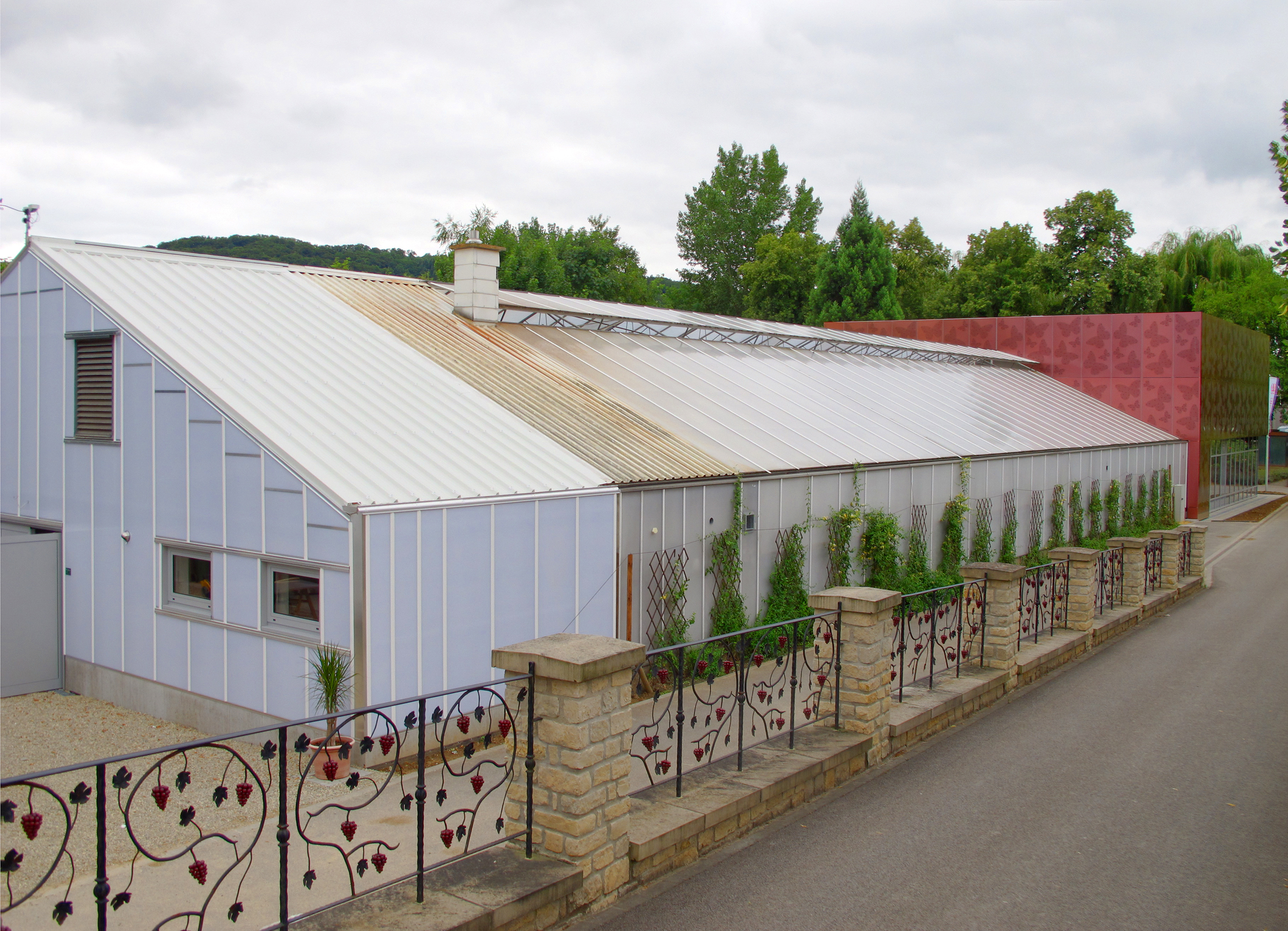 The butterfly garden in Grevenmacher after modernization